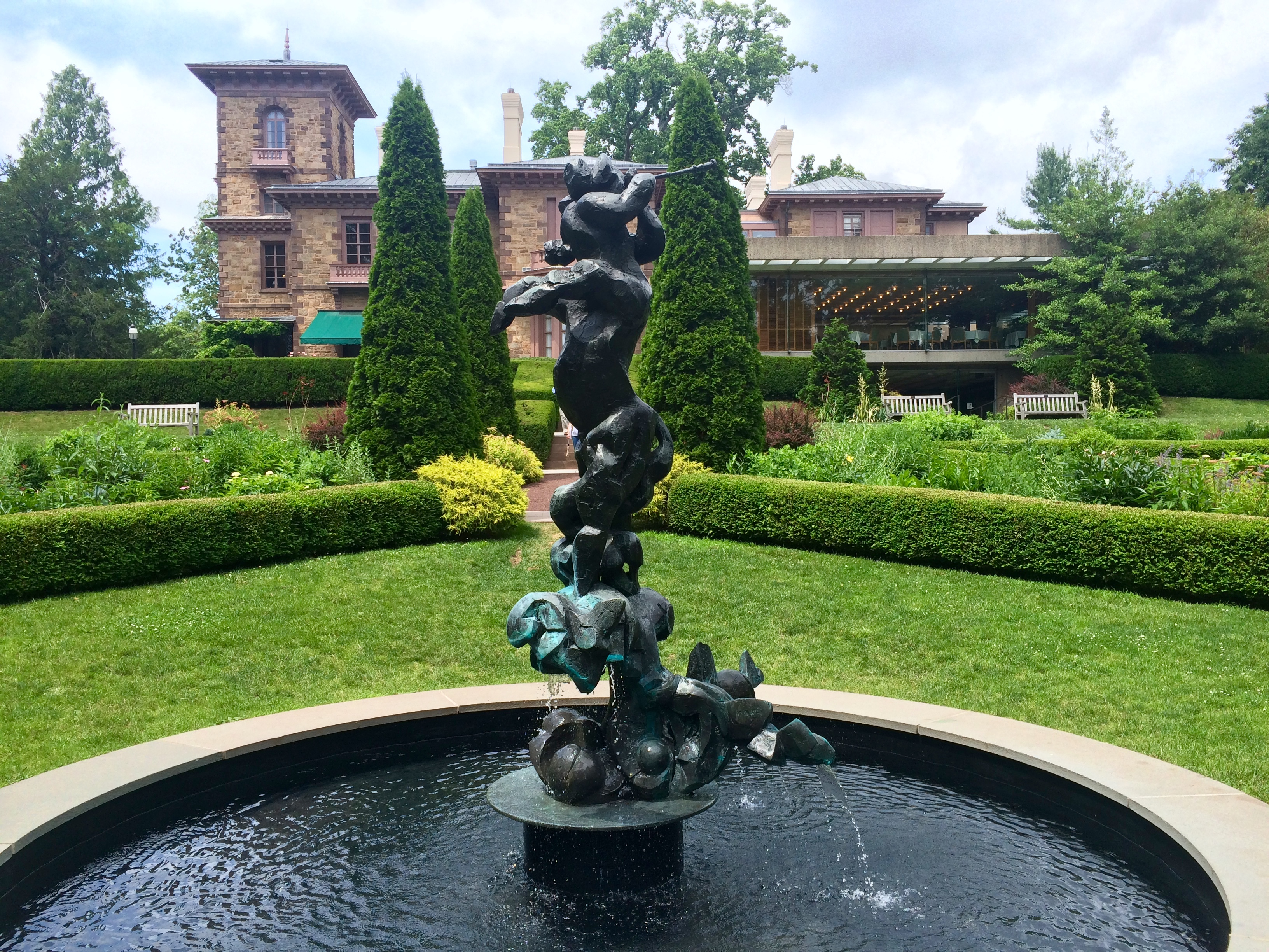 Prospect House, a National Historic Landmark, is the faculty dining club of Princeton University. The sculpture at the center of the fountain in the garden is Centaur by Dimitri Hadzi (1954) in Bronze. It was a gift of Brian P. Leeb, Princeton University class of 1918.